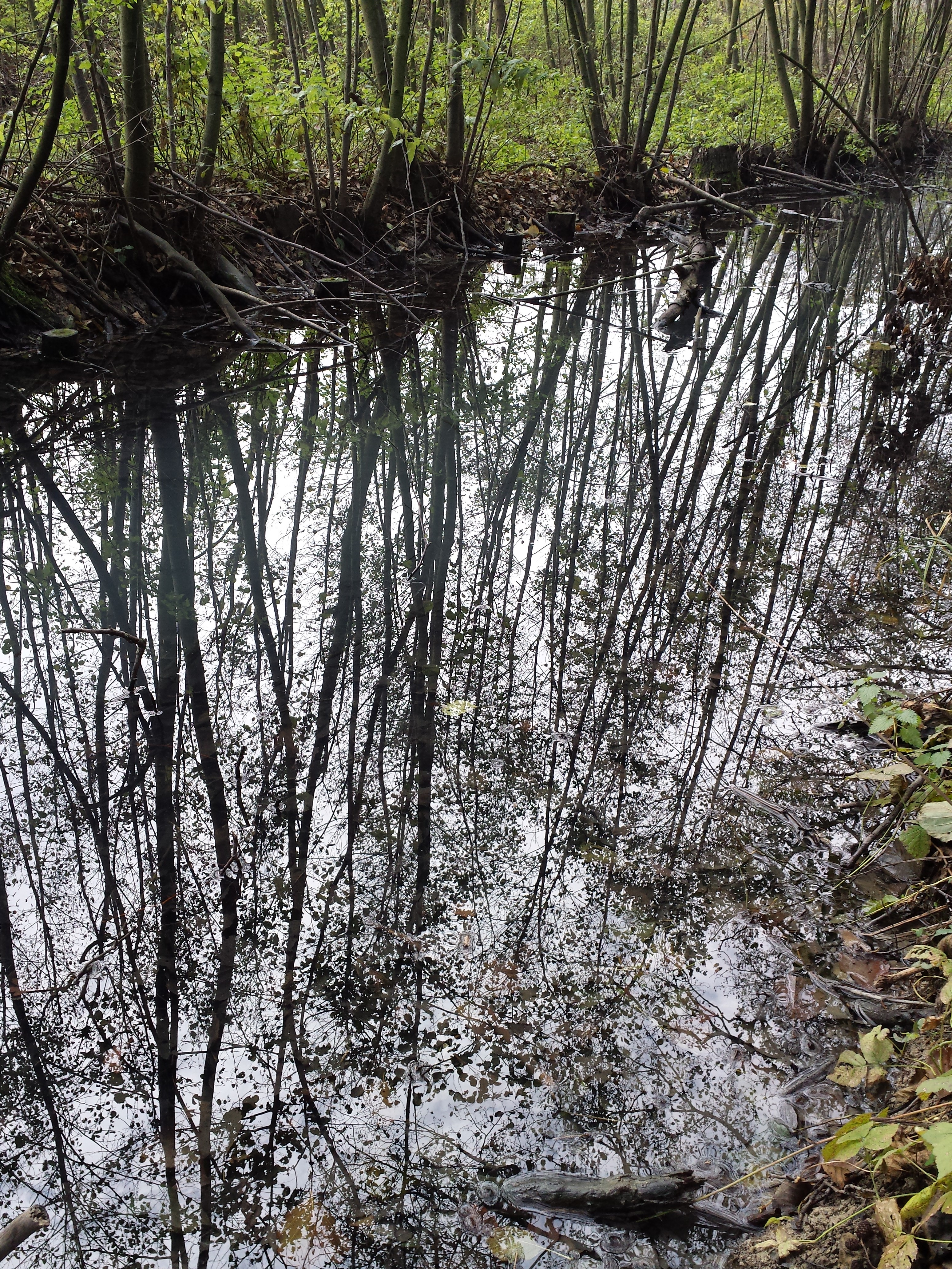 Retention bassin Schleinbach at Rußbach stream Moat within carr (with Alnus glutinosa)